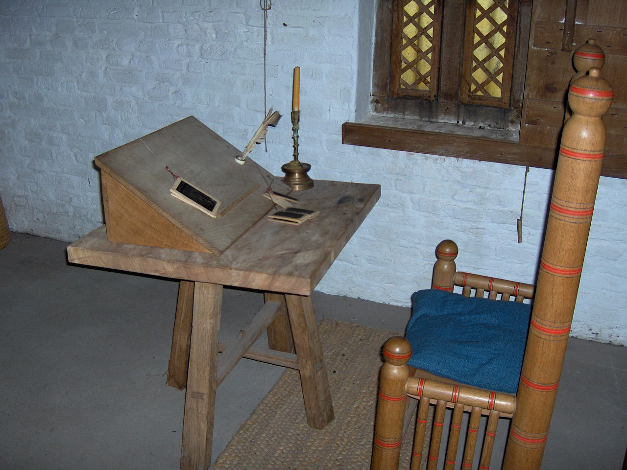 Medieval writing desk; chair with cushion; at the archeological site of Walraversijde, near Oostende, Belgium